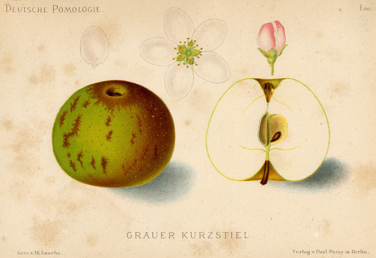 Illustration 66 from Deutsche Pomologie - Aepfel Apple cultivar shown: Grauer Kurzstiel